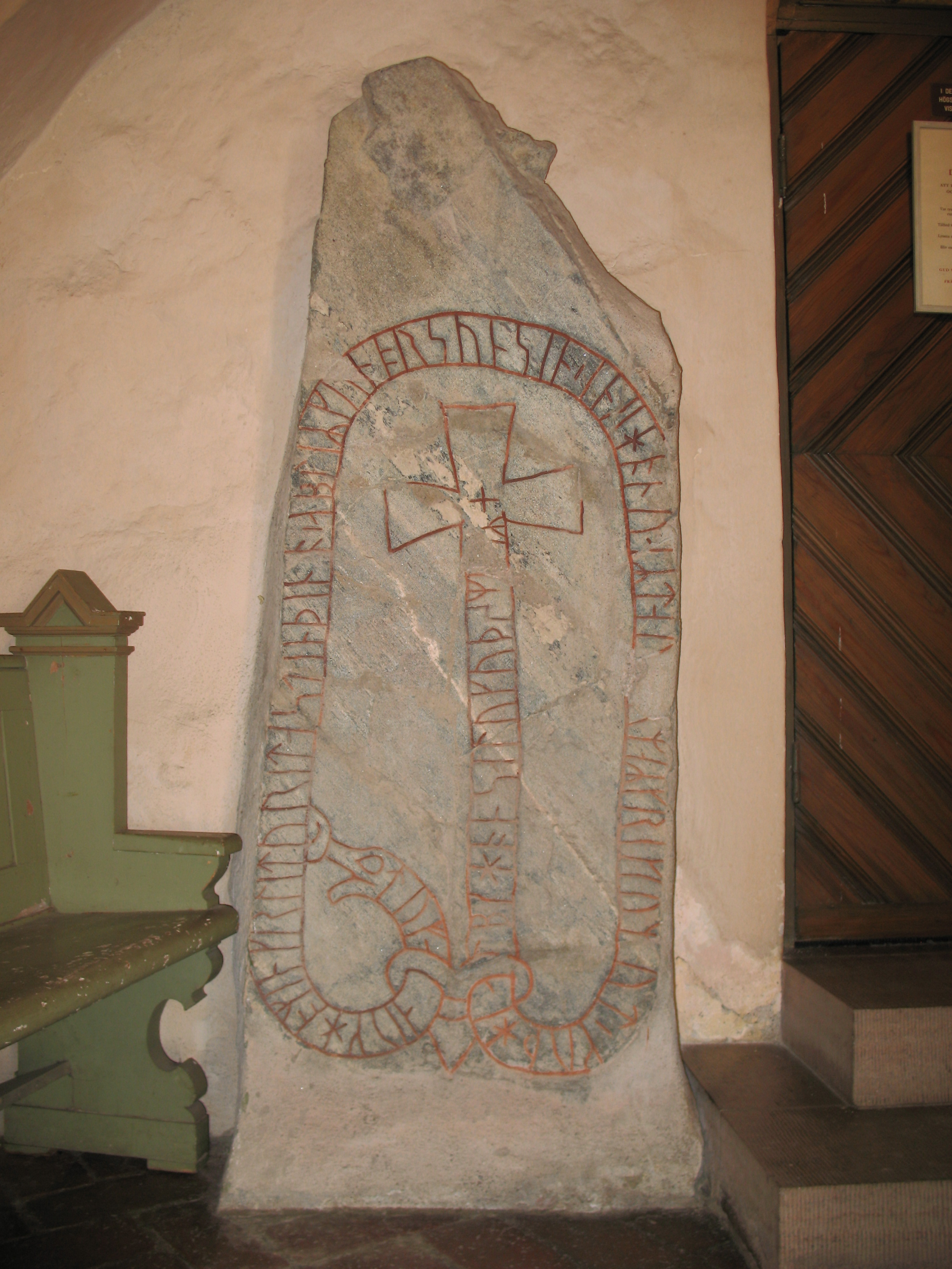 Runestone U 431, which is located in the atrium of Norrsunda church in Uppland, Sweden.